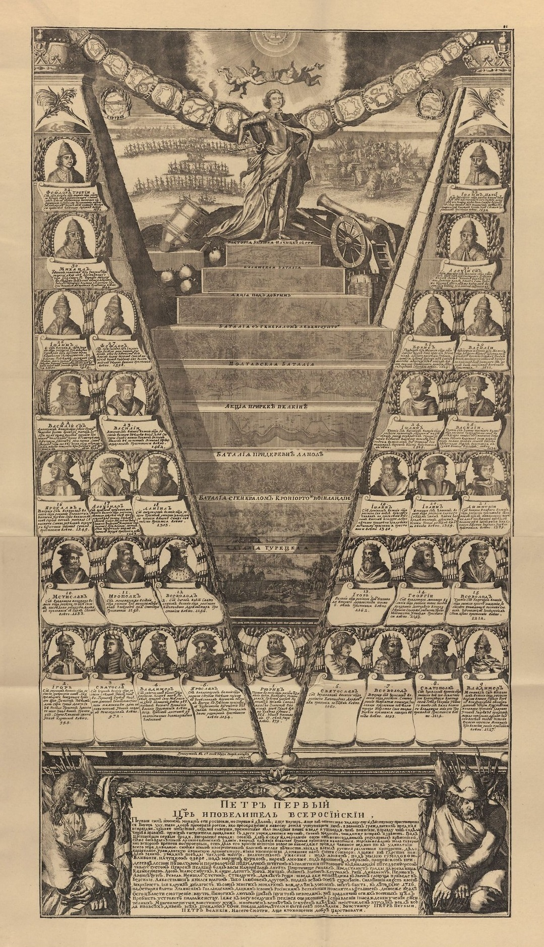 Engraving (plate 325) from Materīaly dlia russkoĭ ikonografīi, Saint Petersburg, Russia: 1884, by Dmitriĭ Aleksandrovich Rovinskiĭ (1824-1895) Slav 610.12*, Houghton Library, Harvard University